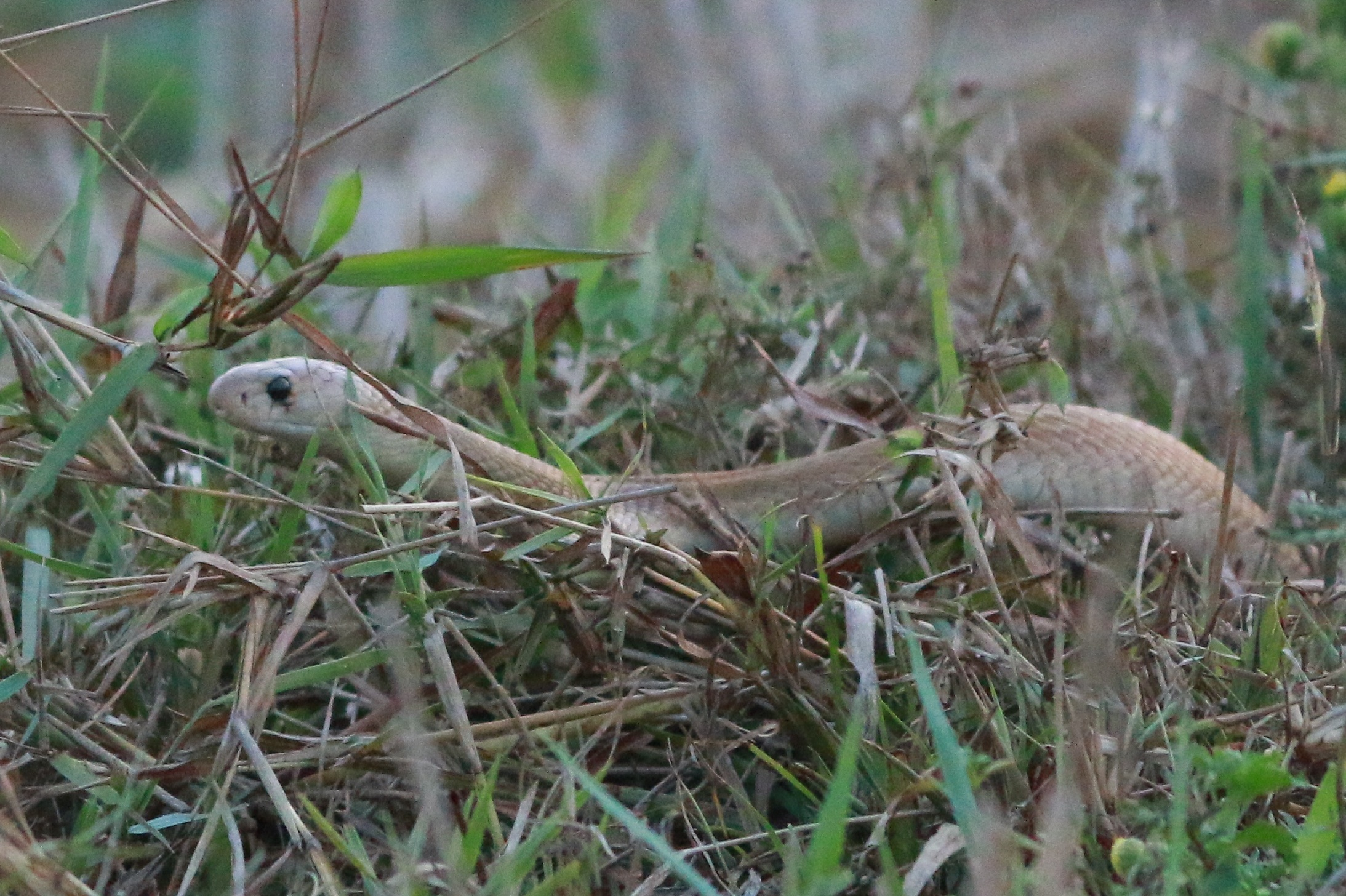 Indian cobra in habitat